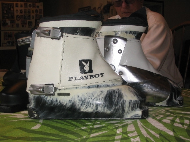 The image shows a pair of Rosemount ski boots, typical of the 1969 and later "Fastback" models. During the early 1970s, Playboy ran a number of ski resorts in the US. These Rosemont Fastback boots were produced for them under a branding scheme. The fastback models used an external screw adjustment to change the natural forward lean of the boots. They could be moved forward for high speed on smooth runs, or back for looser snow or bumps. The control is the black dial on the back of the boot, between the two silver metal pieces.